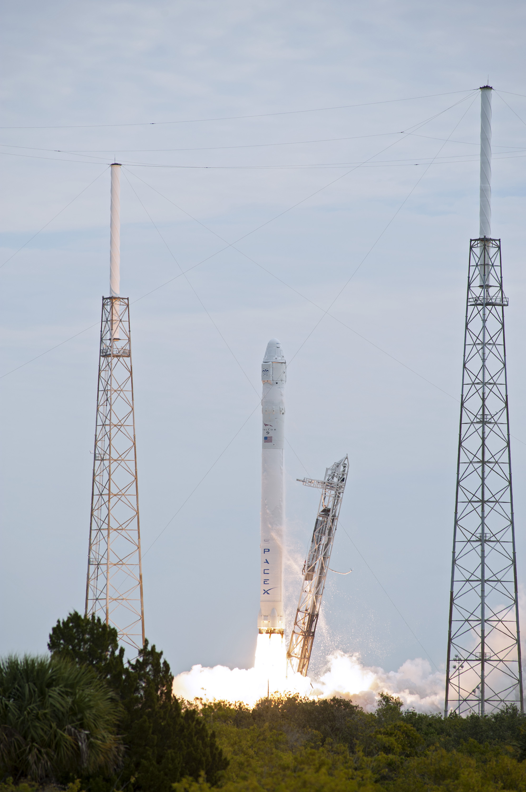 A Space Exploration Technologies, or SpaceX, Falcon 9 rocket lifts off Space Launch Complex 40 on Cape Canaveral Air Force Station in Florida at 10:10 a.m. EST, carrying a Dragon capsule filled with cargo. The SpaceX Dragon capsule is making its third trip to the International Space Station, following a demonstration flight in May 2012 and the first resupply mission in October 2012. The SpaceX-2 mission is the second of 12 SpaceX flights contracted by NASA to resupply the orbiting laboratory.